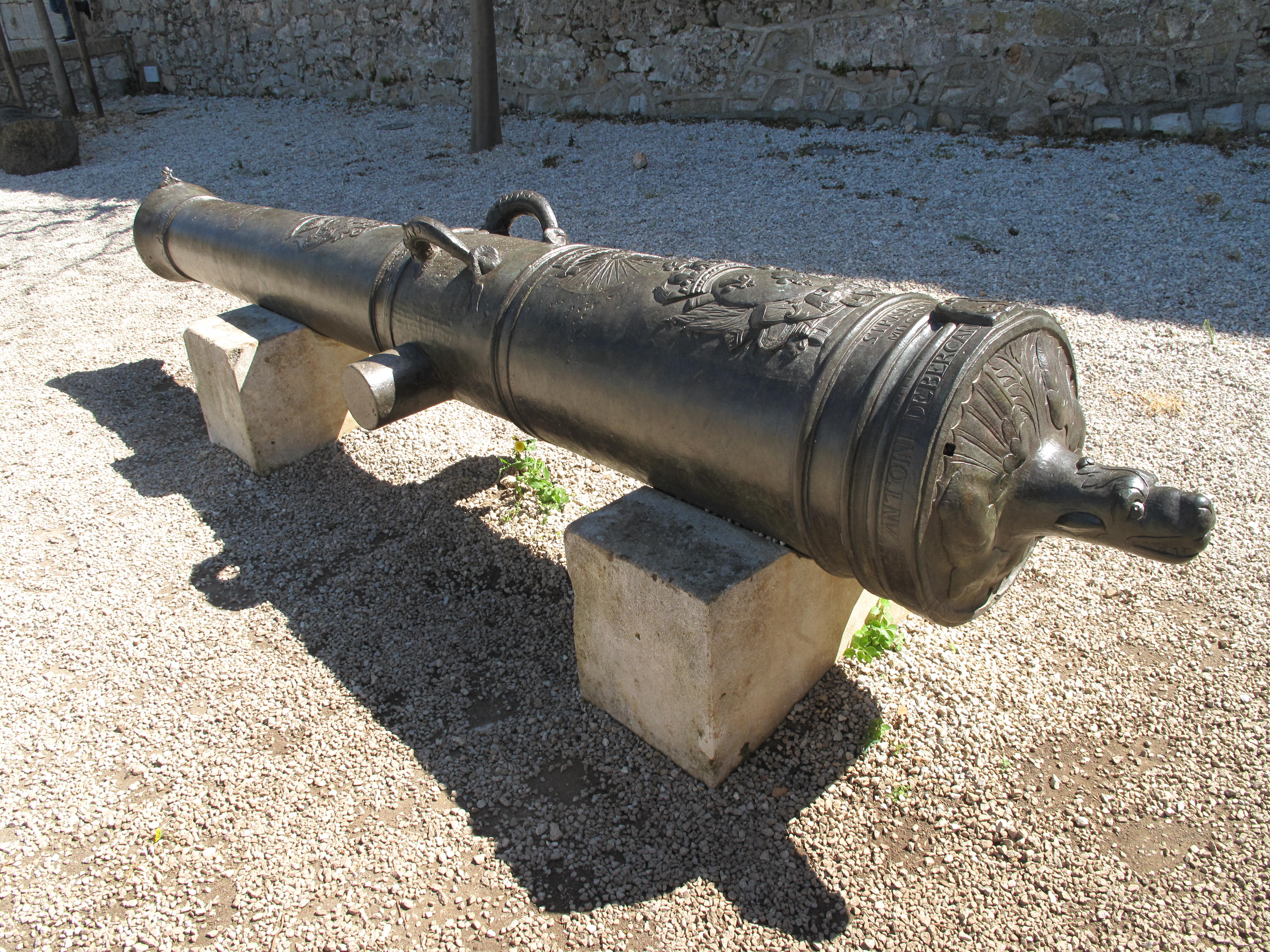 Cannon l'Inconnu (=the Unknown) in front of the porte Marine of the fort-Royal of the Sainte-Marguerite island (Alpes-Maritimes, France).